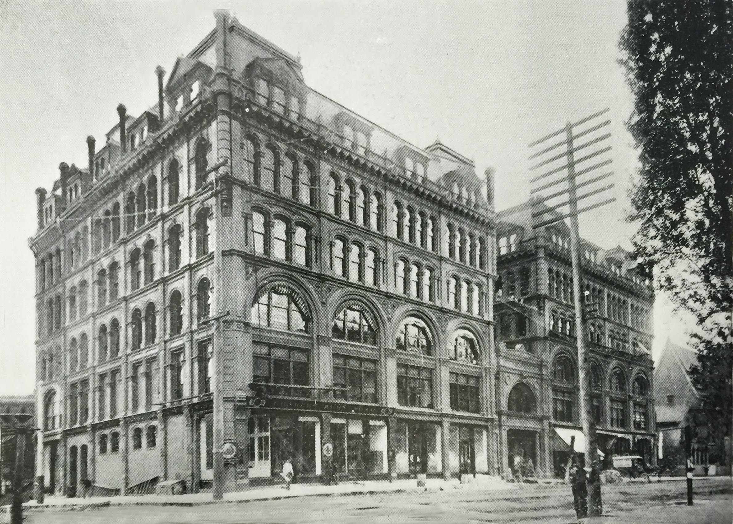 The Worcester Block, also known as the Corbett Building, in Portland, Oregon.